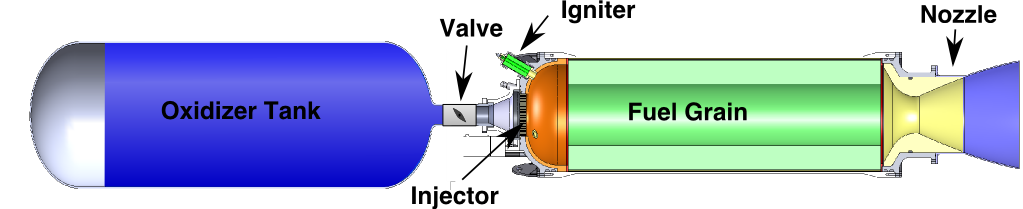 Conceptual schematic of a hybrid rocket propulsion system.